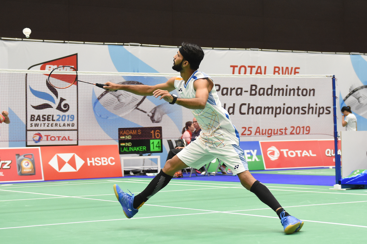 Sukant Kadam during World Para Badminton Championship 2019 Switzerland